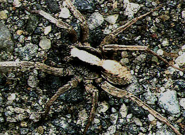 male Lycosa coelestis from Okinawa.